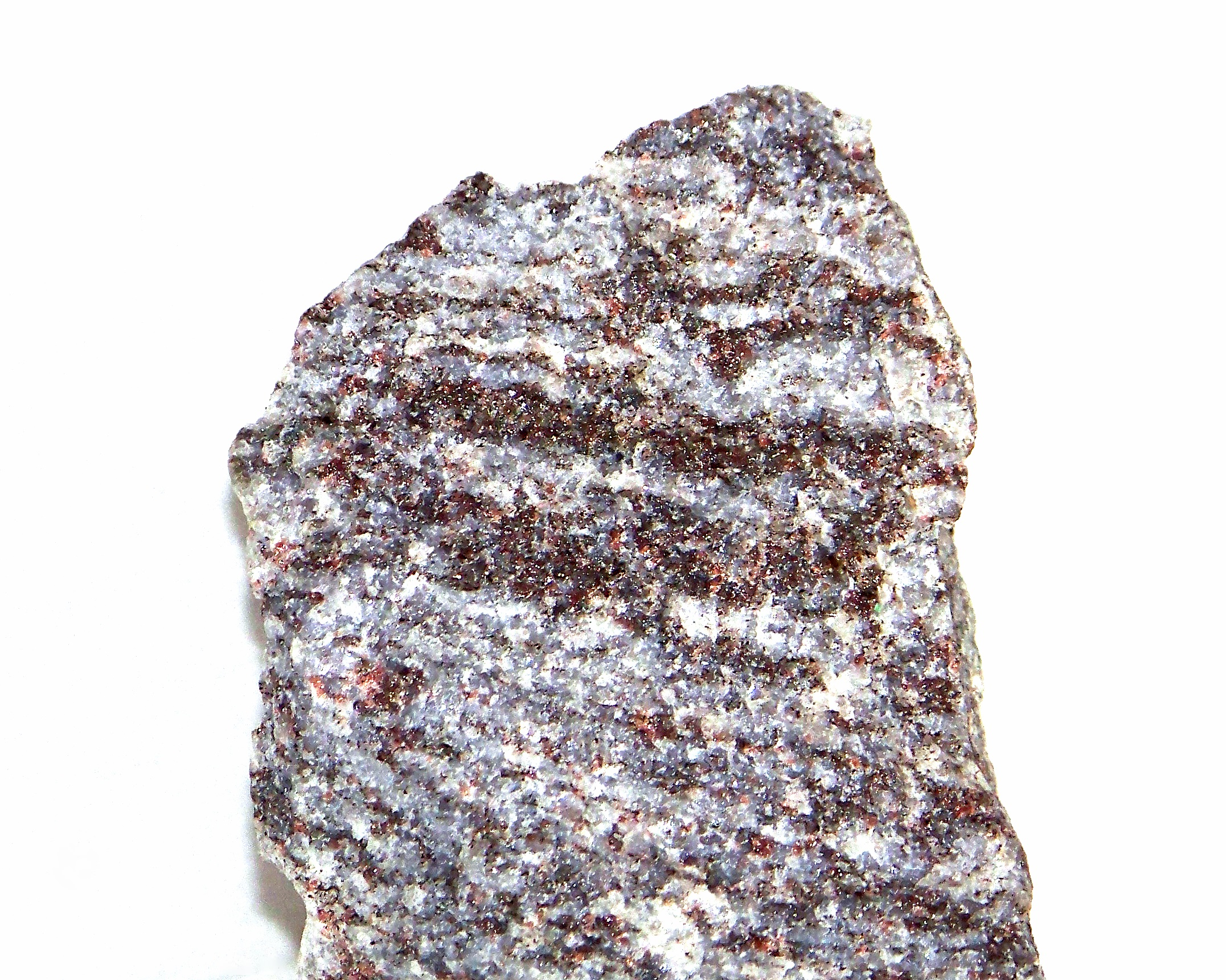 Granulite with quartz, feldspars (plagioklase - light and dark grey), biotite (black) and pirope (dark red) from Zagórze Śląskie in the Owl Mountains, Lower Silesia, Poland.